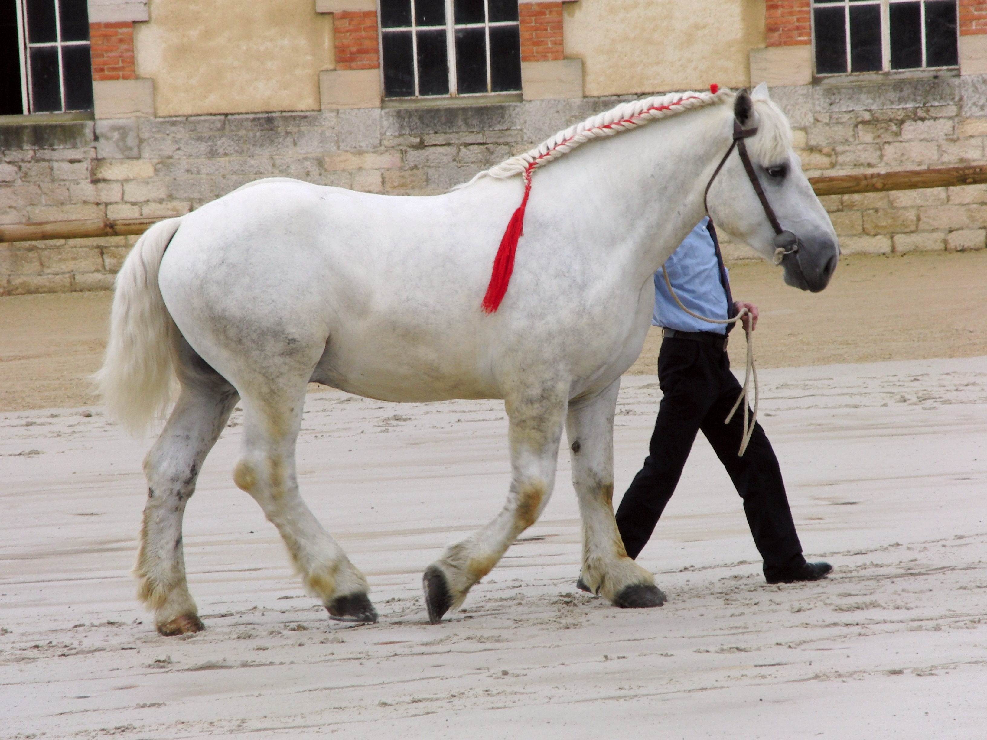 Percheron stallion, Haras de Cluny, Saône-et-Loire, France